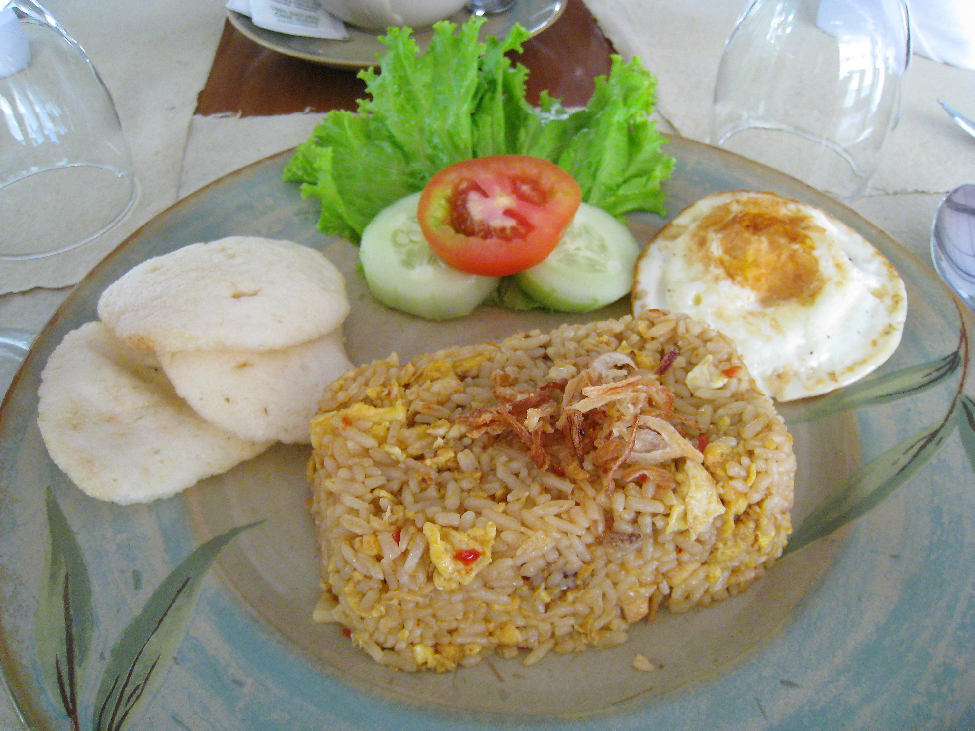 A nasi goreng (Indonesian fried rice) breakfast in a hotel in Solo (Surakarta), Central Java, Indonesia. Fried rice accompanied with crispy fried shallots, fried egg, kerupuk udang (prawn cracker) and slices of tomato, cucumber and lettuce.